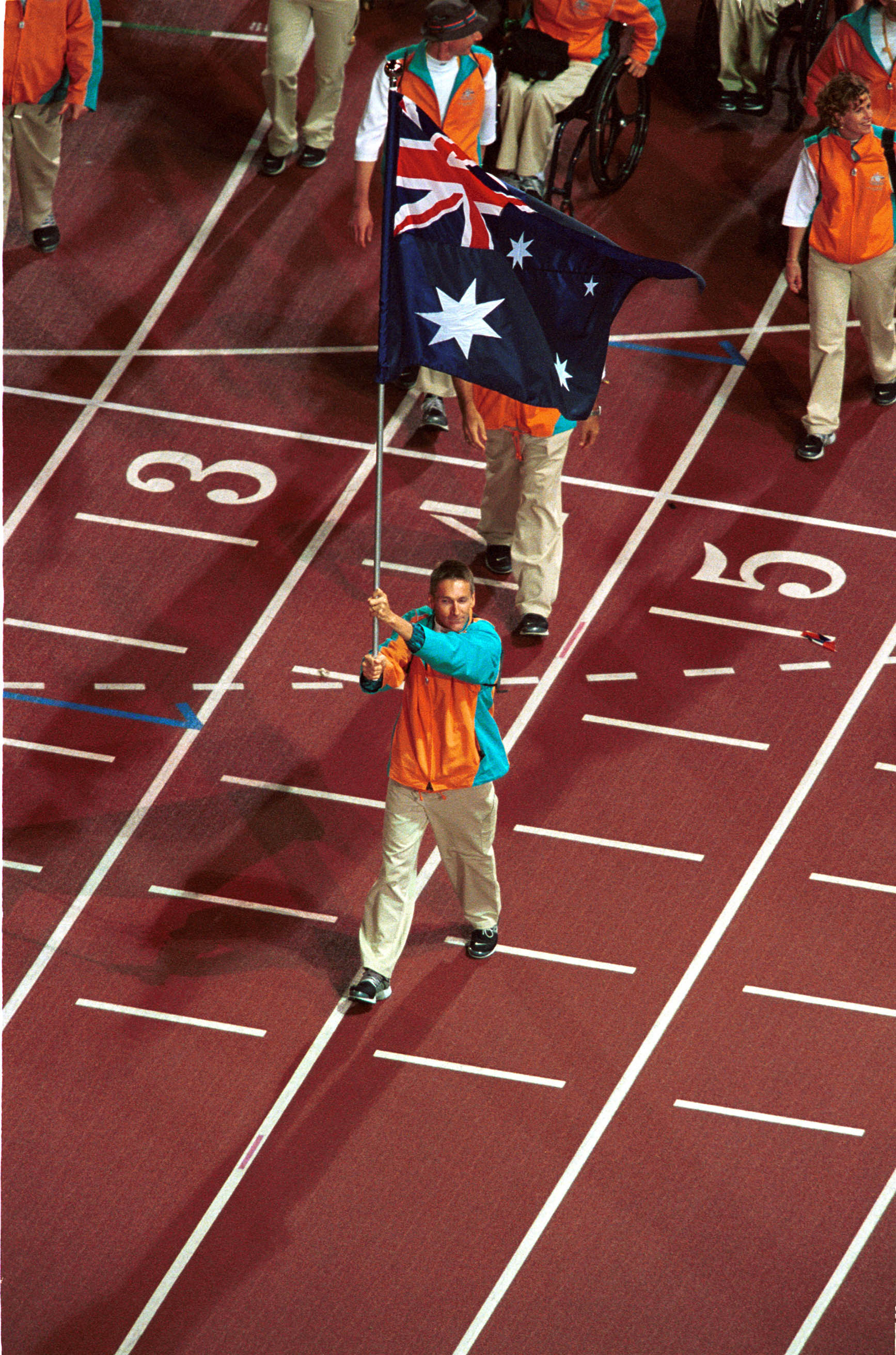 Australian swimmer Brendan Burkett leads the Australian Paralympic Team as the flag bearer in the Athletes Parade at the Sydney Paralympic Games Opening Ceremony